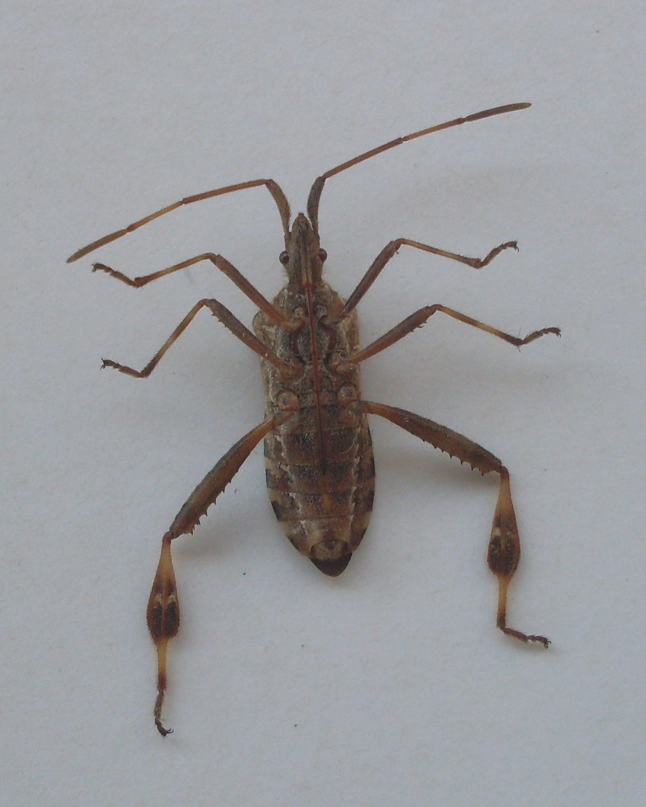 Leptoglossus occidentalis (Rhynchota: Coreidae). Specimen caught at night near small plantations of Pinus pinea in Agricultural and Environment Professional Institute Cettolini of Villacidro (Sardinia, Italy)